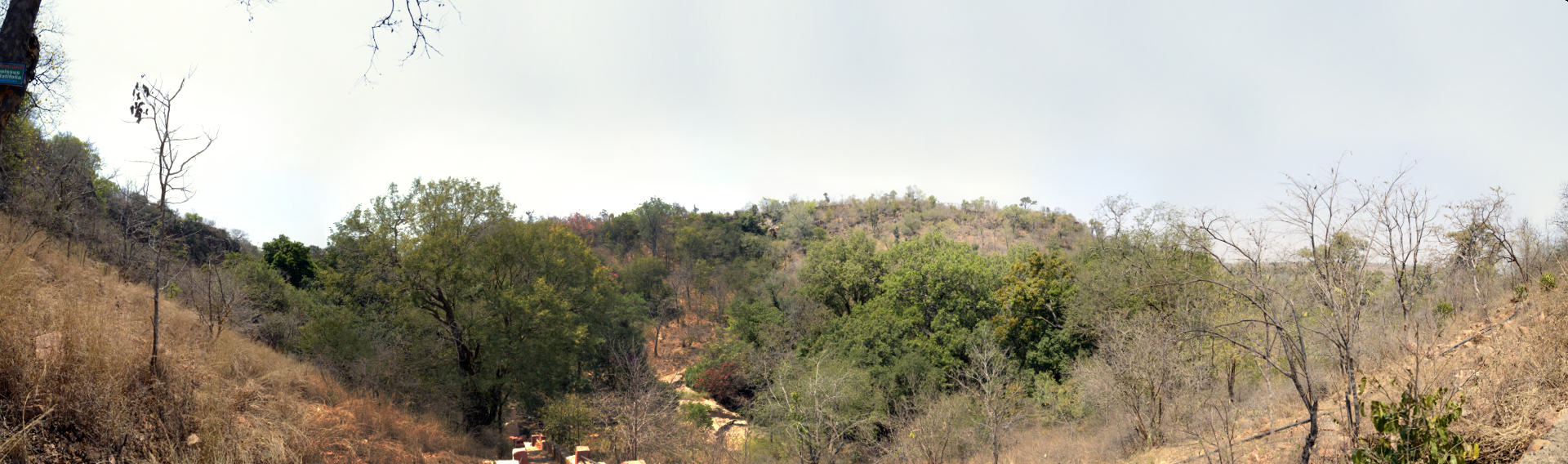 Panoramic view at Mallelatheertham near Srisailam, Nallamala Hills, Andhra Pradesh